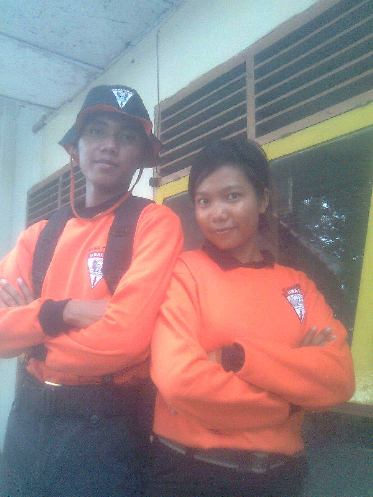 they are ubaloka member